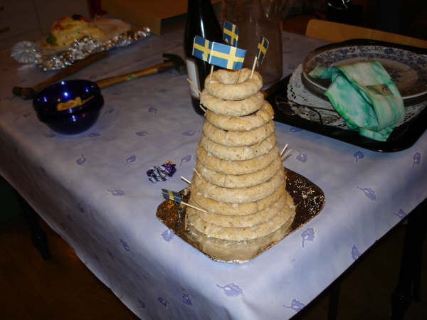 Traditional Norwegiean cake, called Kransekaka, here at Swedish party, and with many of the chocolates on toothpicks already eaten.